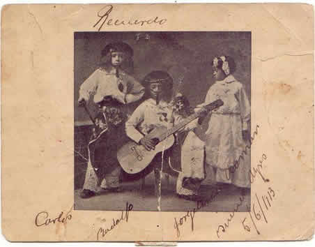 Jazz argentinan musician Oscar Alemán, his brother Carlos and his sister Jorgelina